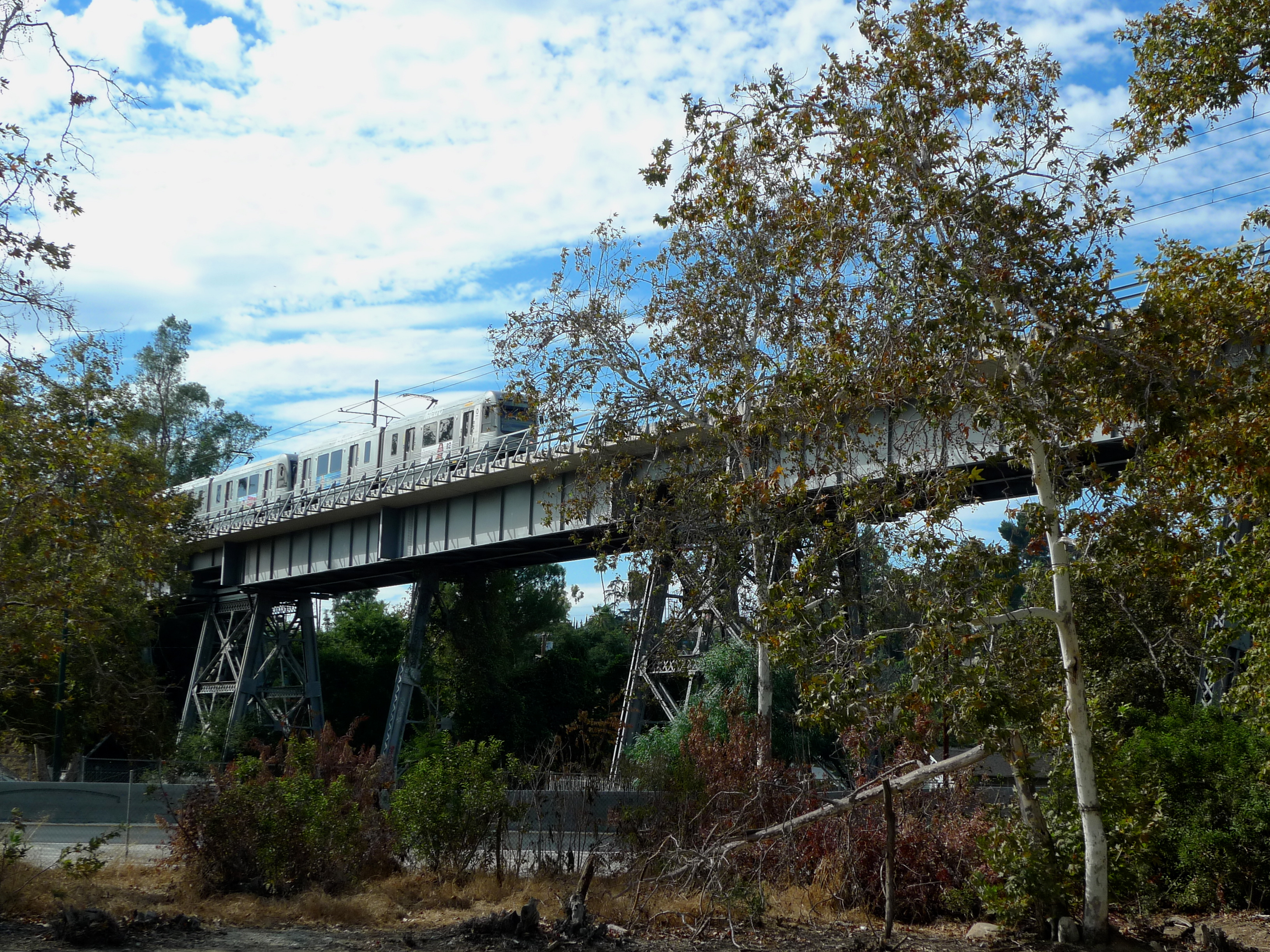 Santa Fe Arroyo Seco Railroad Bridge, with a Gold Line train — crossing the Arroyo Seco in the Highland Park district of Los Angeles. A Los Angeles Historic-Cultural Monument.